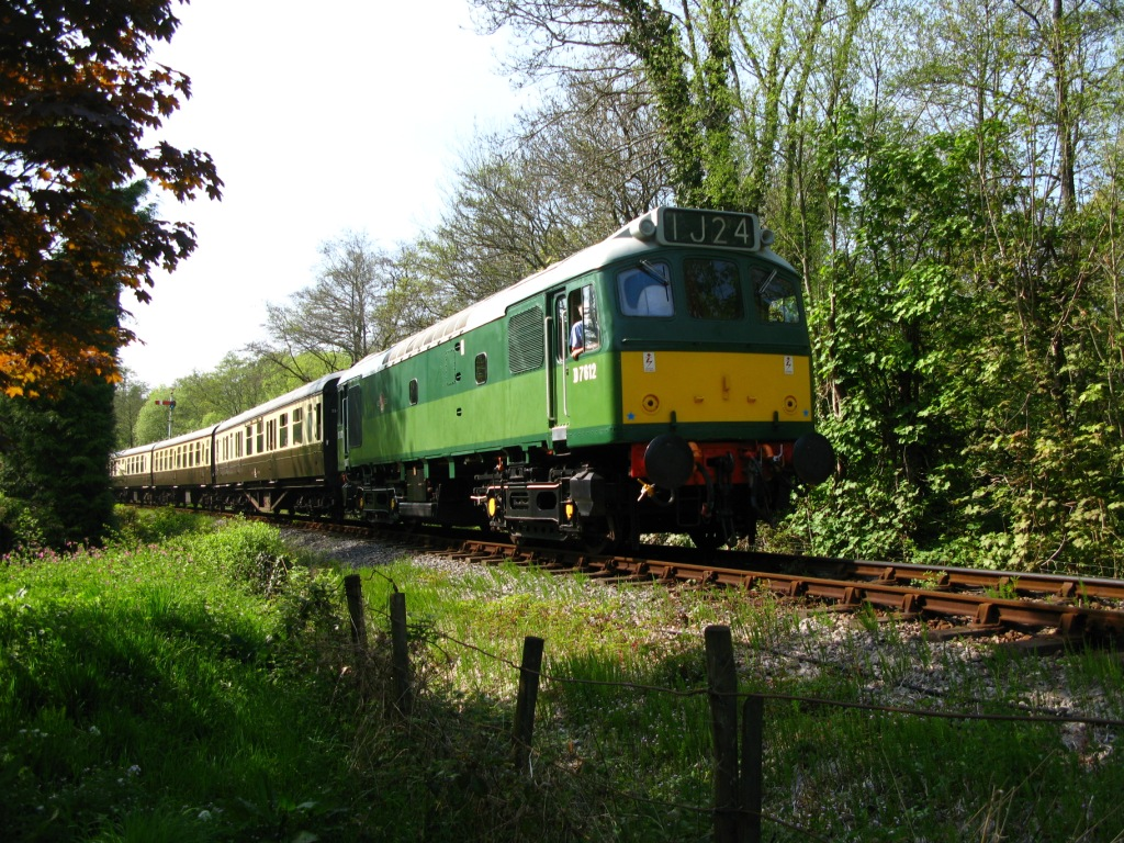 Class 25 D7612 threads its way through the woods near Staverton on its way to Totnes on the South Devon Railway.